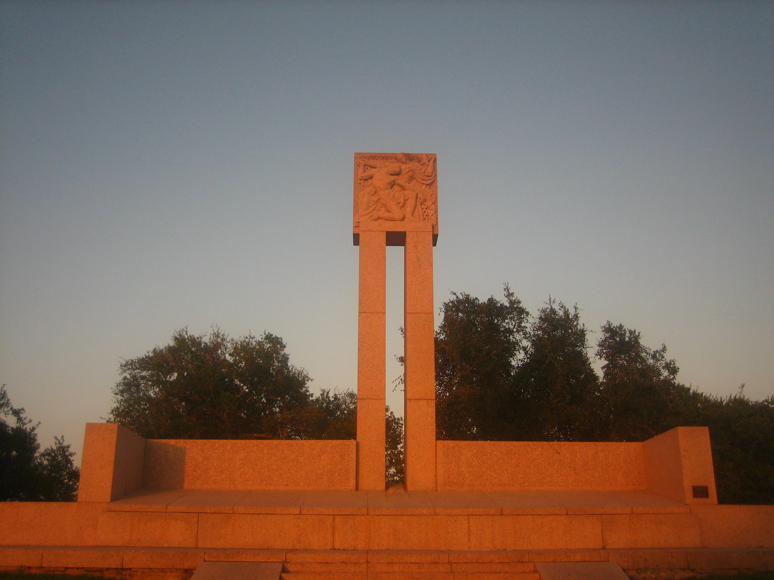 The State of Texas built the Fannin Memorial Monument for the 1936 Texas Centennial. I took photo on July 30, 2008.Billy Hathorn (talk) 02:56, 8 September 2008 (UTC)